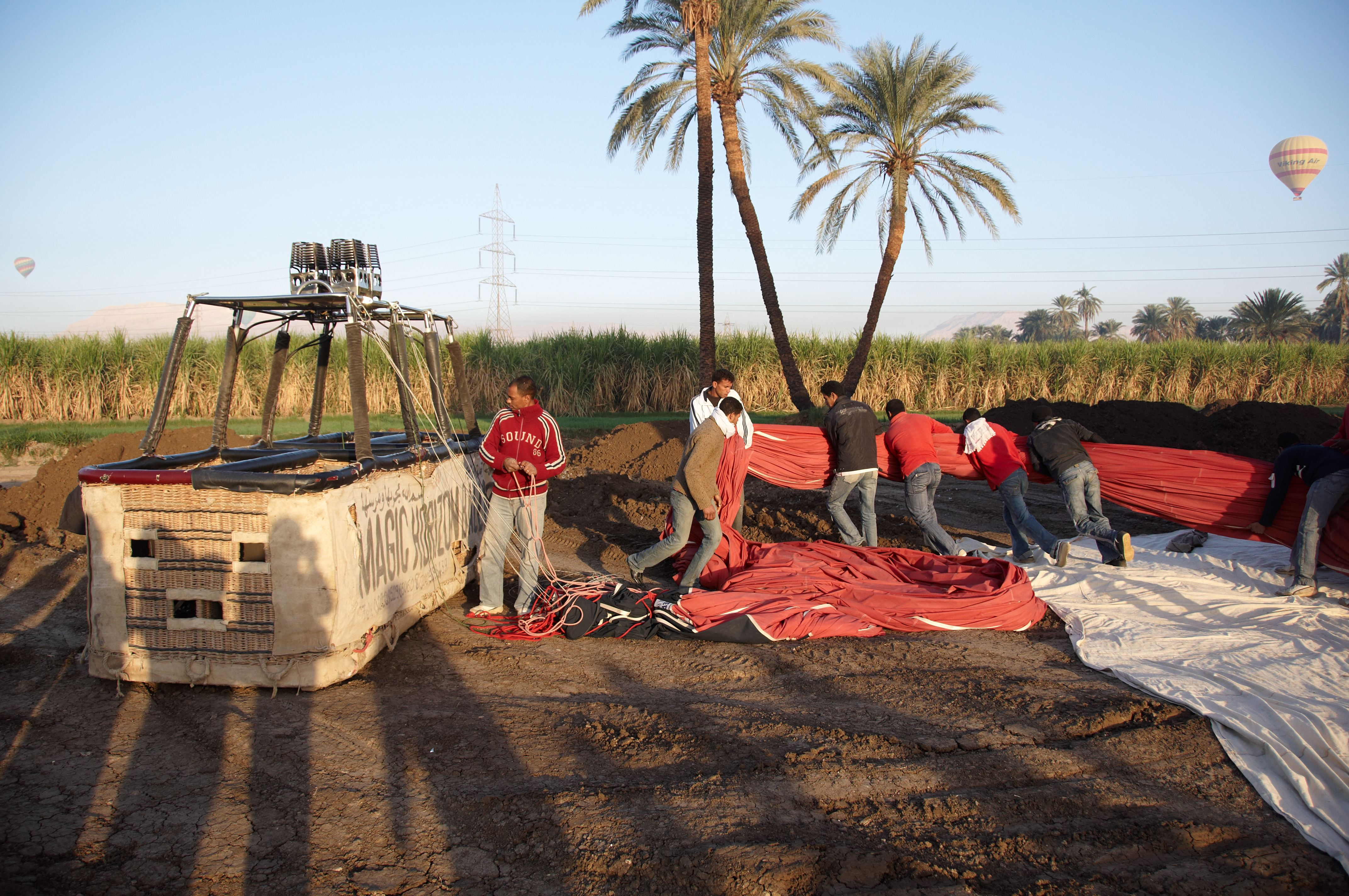 Hot air balloons near Luxor, Egypt